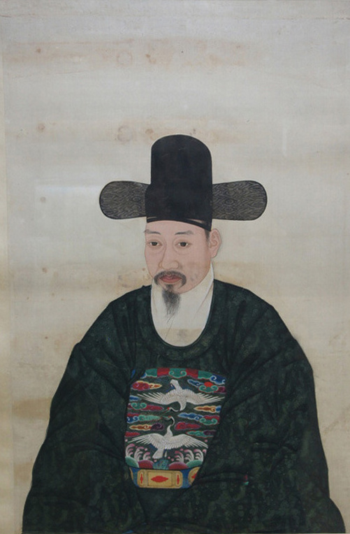 Portrait of Kim Woomyung, the politicians and Confucianist of the mid Joseon Dynasty. This piece is Korea and held by National Chuncheon Museum of Korea. Seoul.